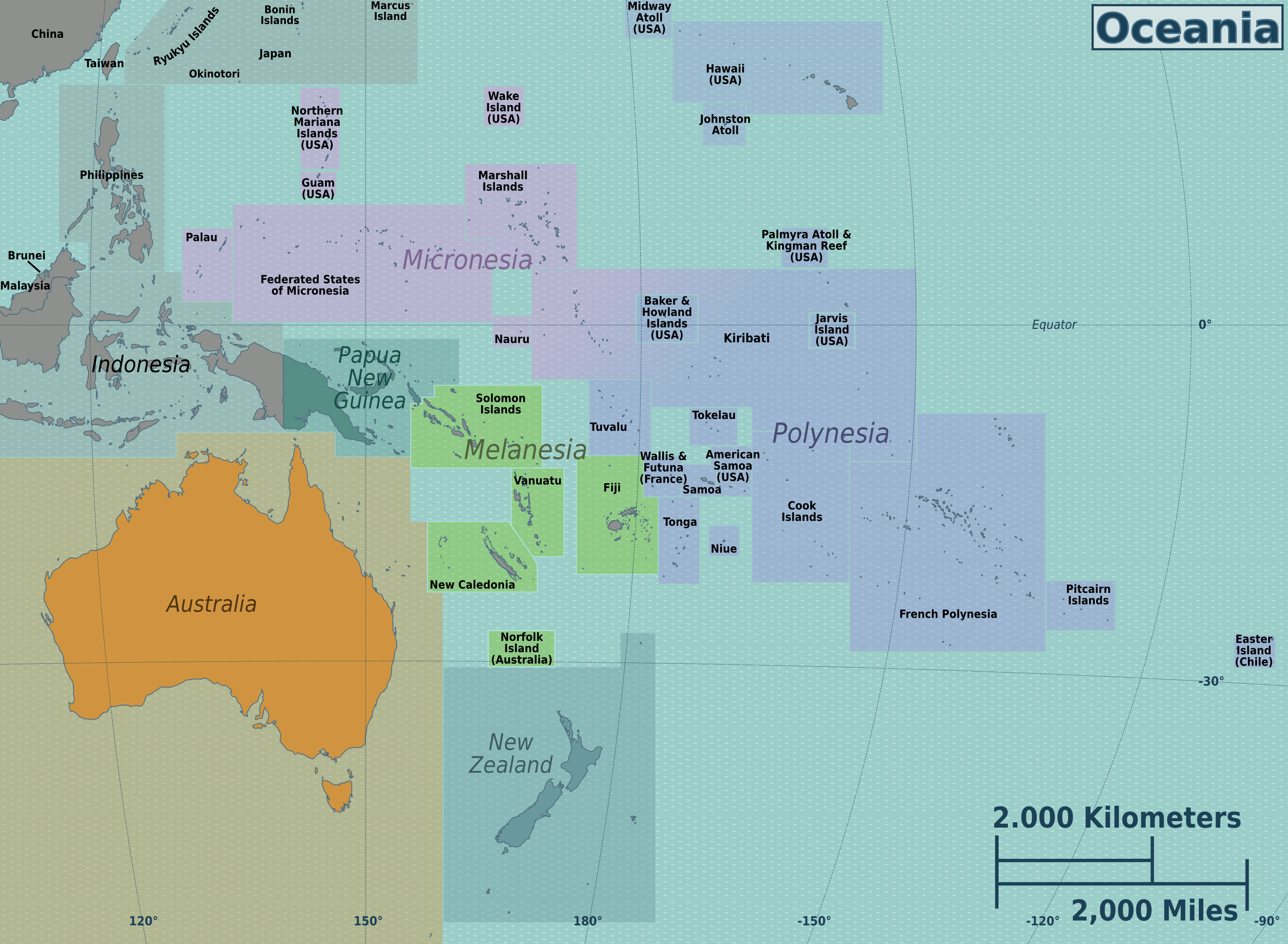 Oceania regions map for use on Wikivoyage, English version